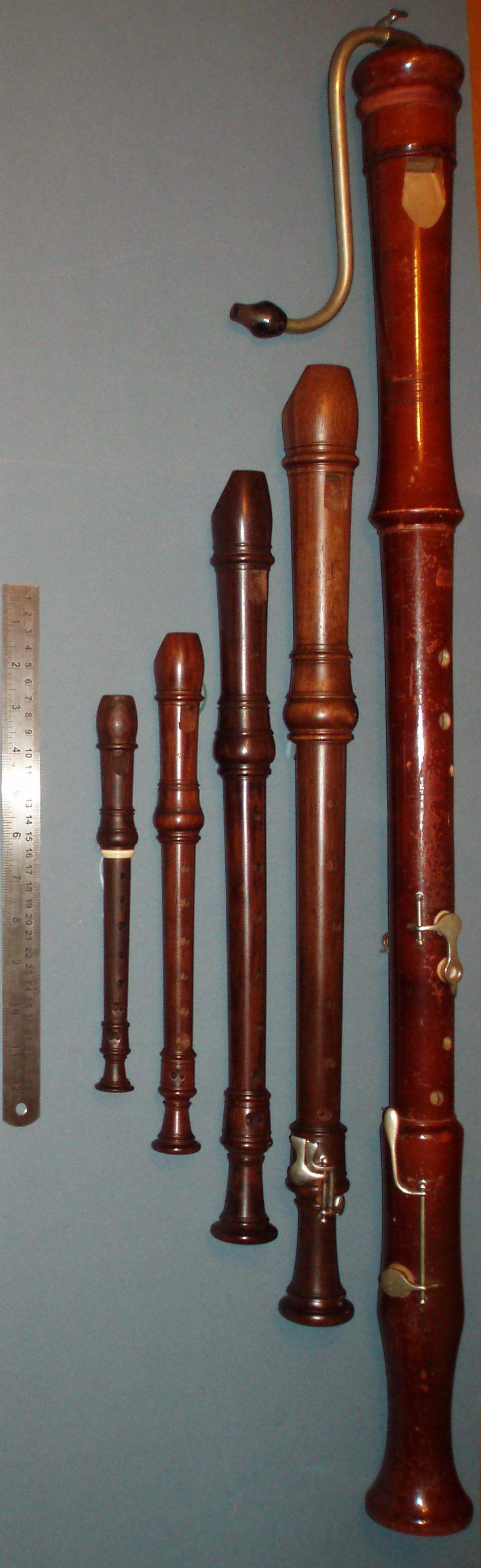 Recorders From top to bottom: bass, tenor, alto/treble, soprano/descant and sopranino recorders